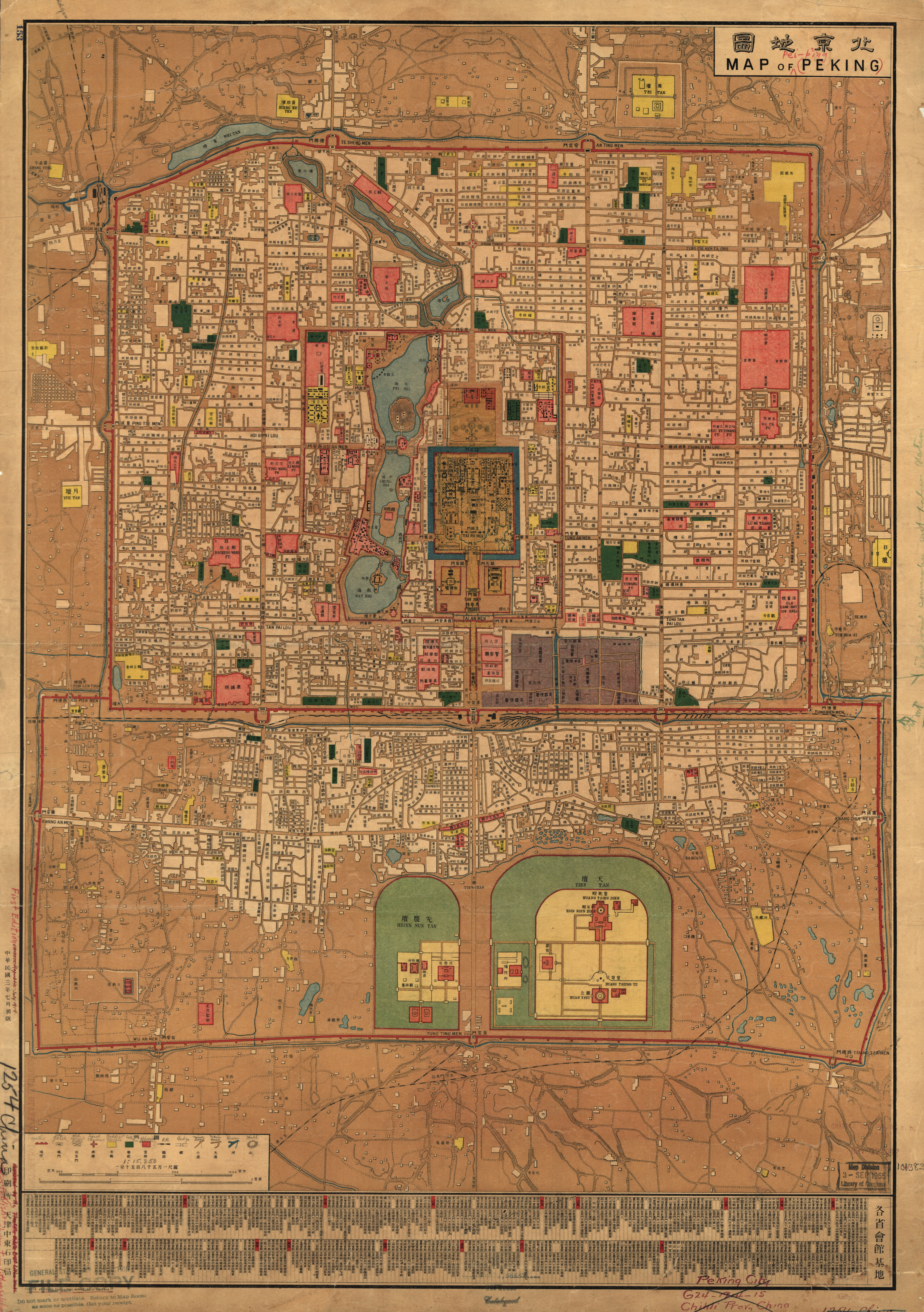 Map of Beijing. Printed by Chung Tung Litho Work (Zhong Dong Shi Yin Ju), Tianjin . Scale 1:15,850.